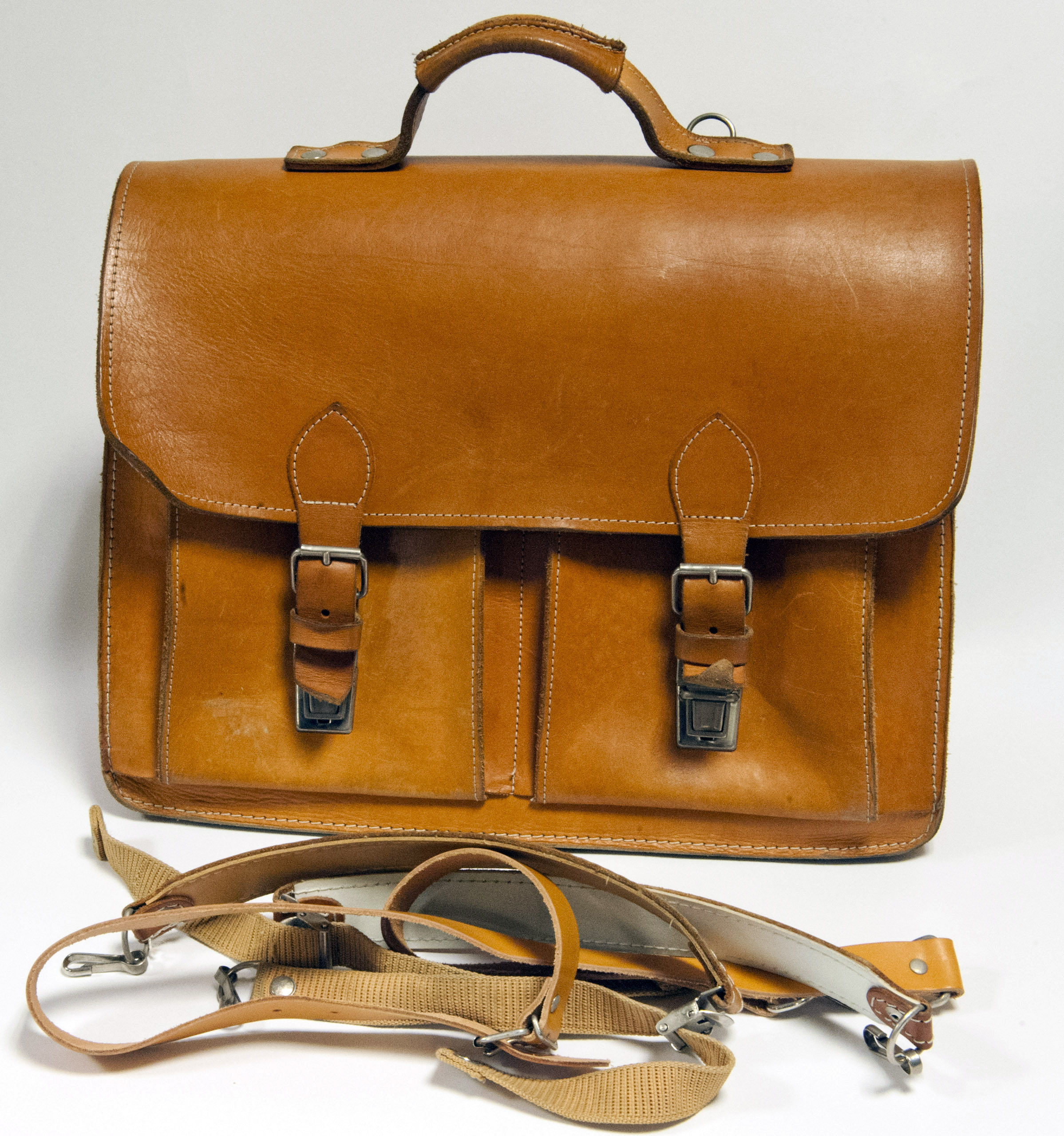 Dispatch case, brief case